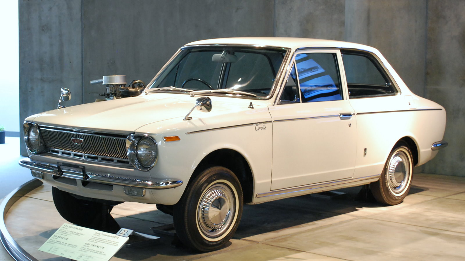 1st generation Toyota Corolla Model KE10